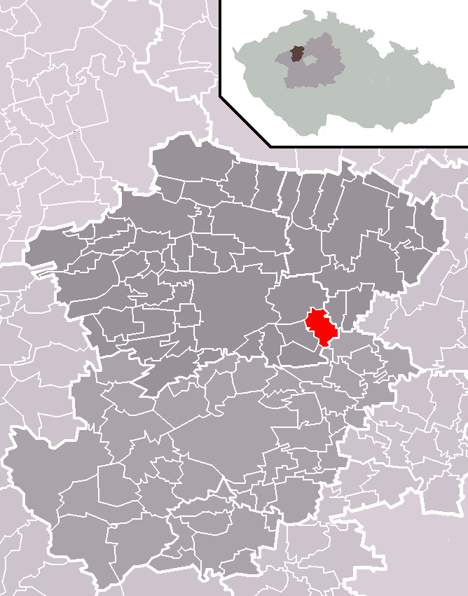 Location of Zvoleněves municipality within Kladno District and administrative area of Slaný as a Municipality with Extended Competence.